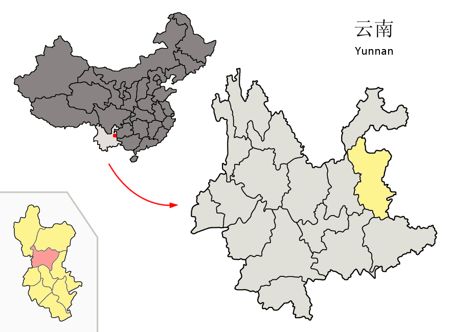 Location of Zhanyi County (pink) and Qujing Prefecture (yellow) within Yunnan province of China Map drawn in september 2007 using various sources, mainly : Yunnan province administrative regions GIS data: 1:1M, County level, 1990 Yunnan Counties map from